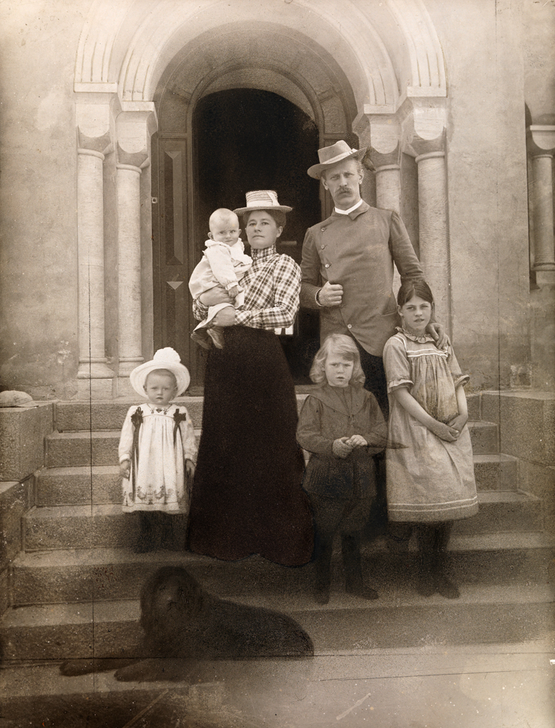 Fridtjof Nansen and his wife Eva with four of their five children (Irmelin, Odd, Kåre and Liv)